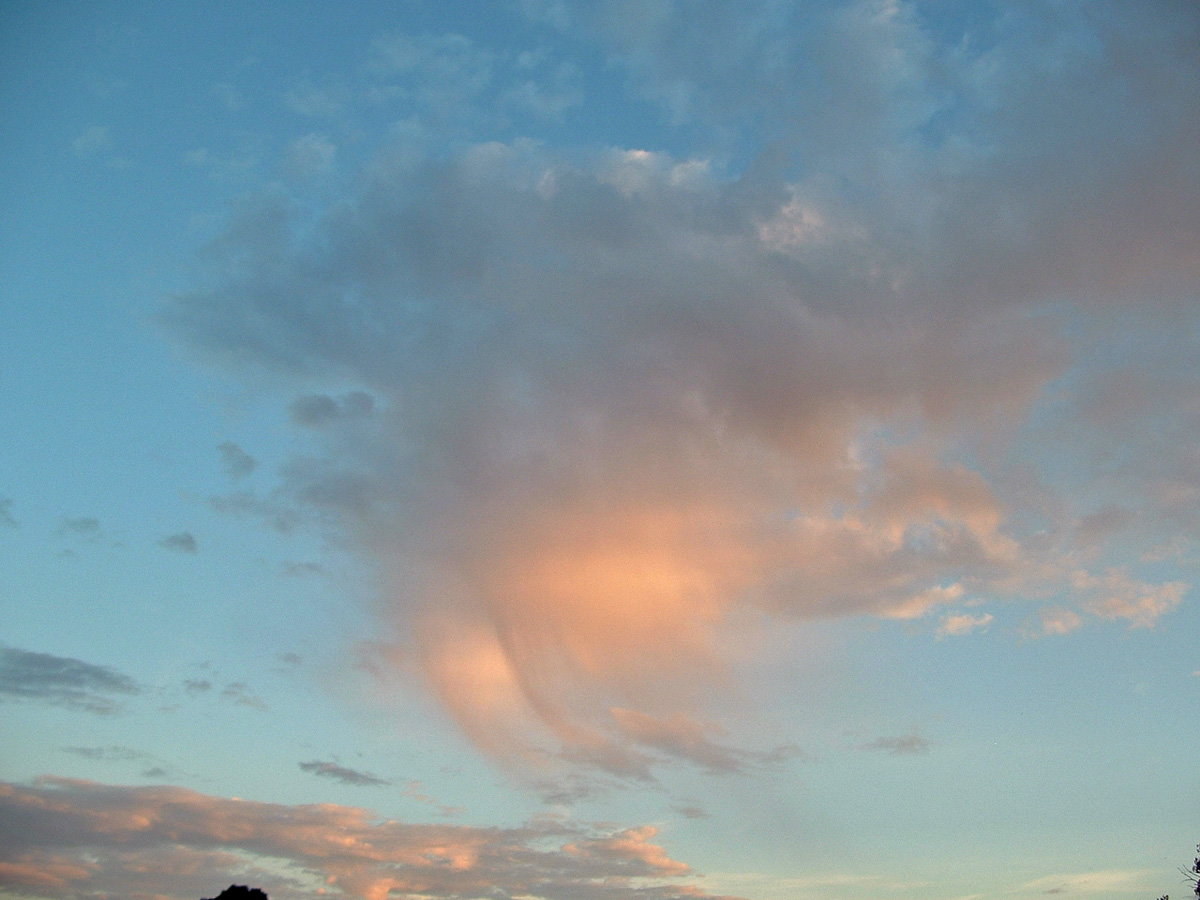 Virga falling from Altocumulus floccus